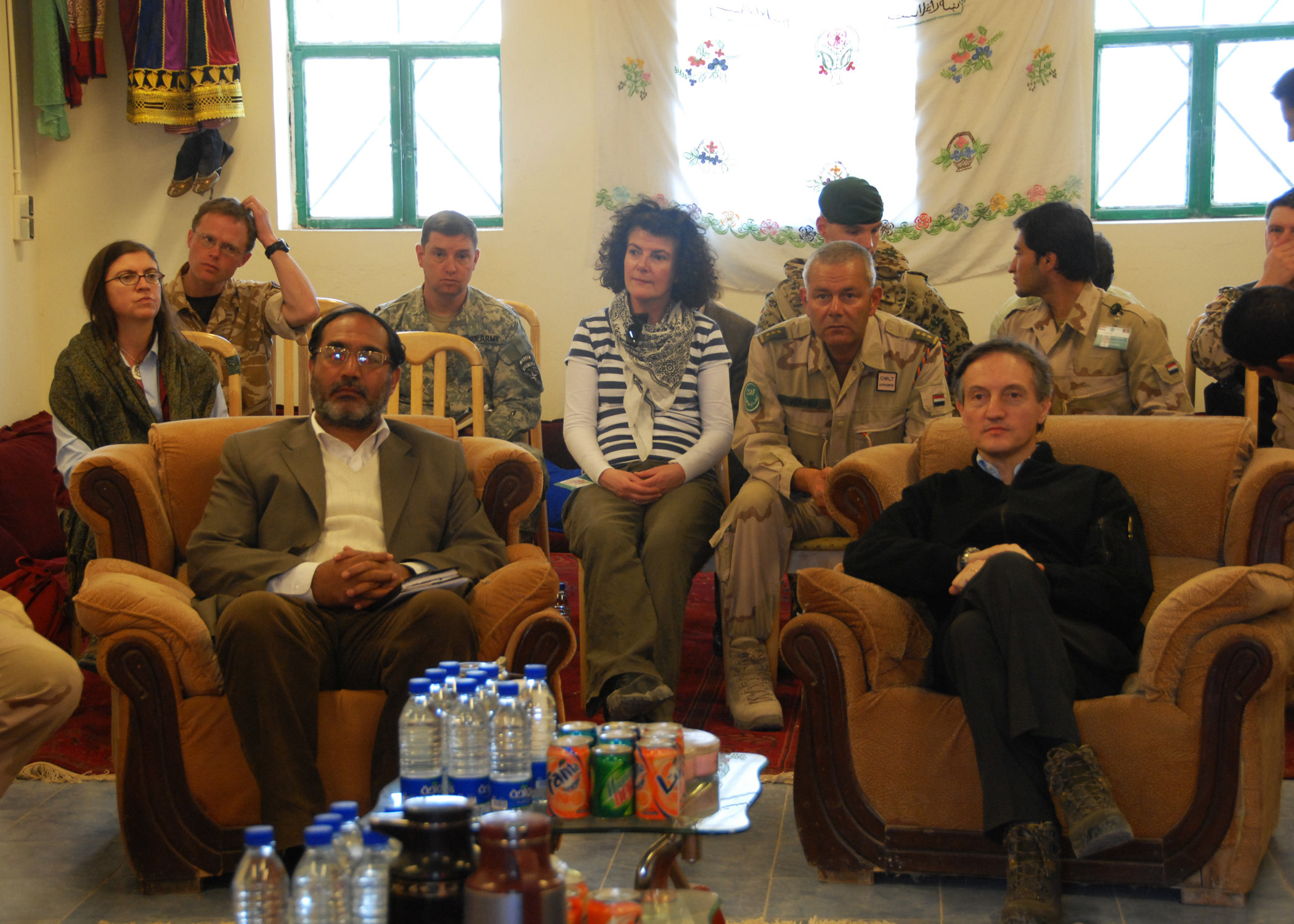 The following is the author's description of the photograph quoted directly from the photograph's Flickr page. "TARIN KOWT, Afghanistan--Haji Asadullah Hamdam, Uruzgan Governor, sits through an operational brief with NATO Deputy Secretary General Claudio Bisogniero and other visiting members of the North Atlantic Council on March 17, 2009. Bisogniero and other members of the NAC were on a one-day special assessment tour of NATO operations throughout Afghanistan. ISAF photo by U.S. Navy Petty Officer 2nd Class Aramis X. Ramirez (RELEASED) "